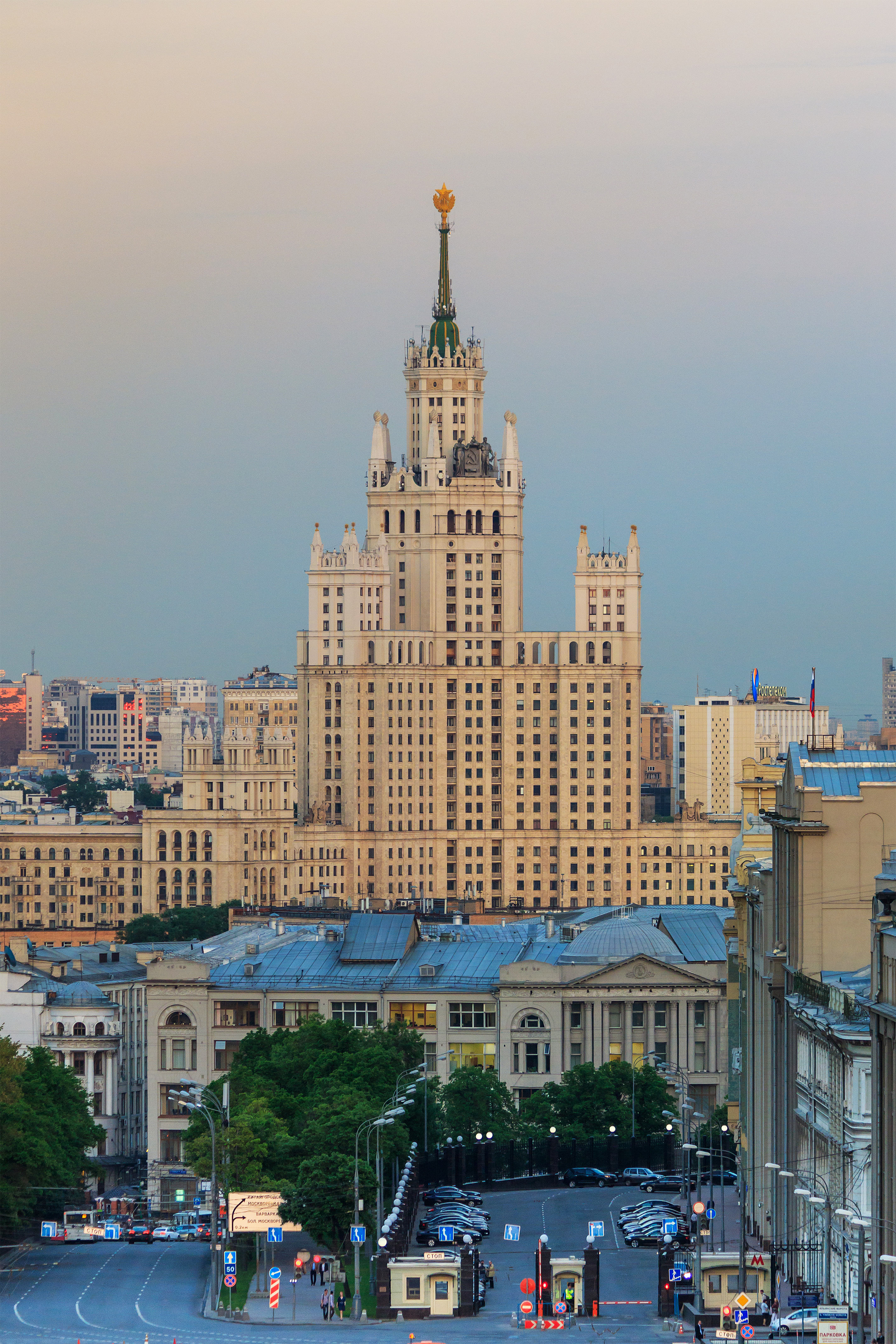 View from the Panoramic view point of the Central Children’s Store at Lubyanka Square in Moscow